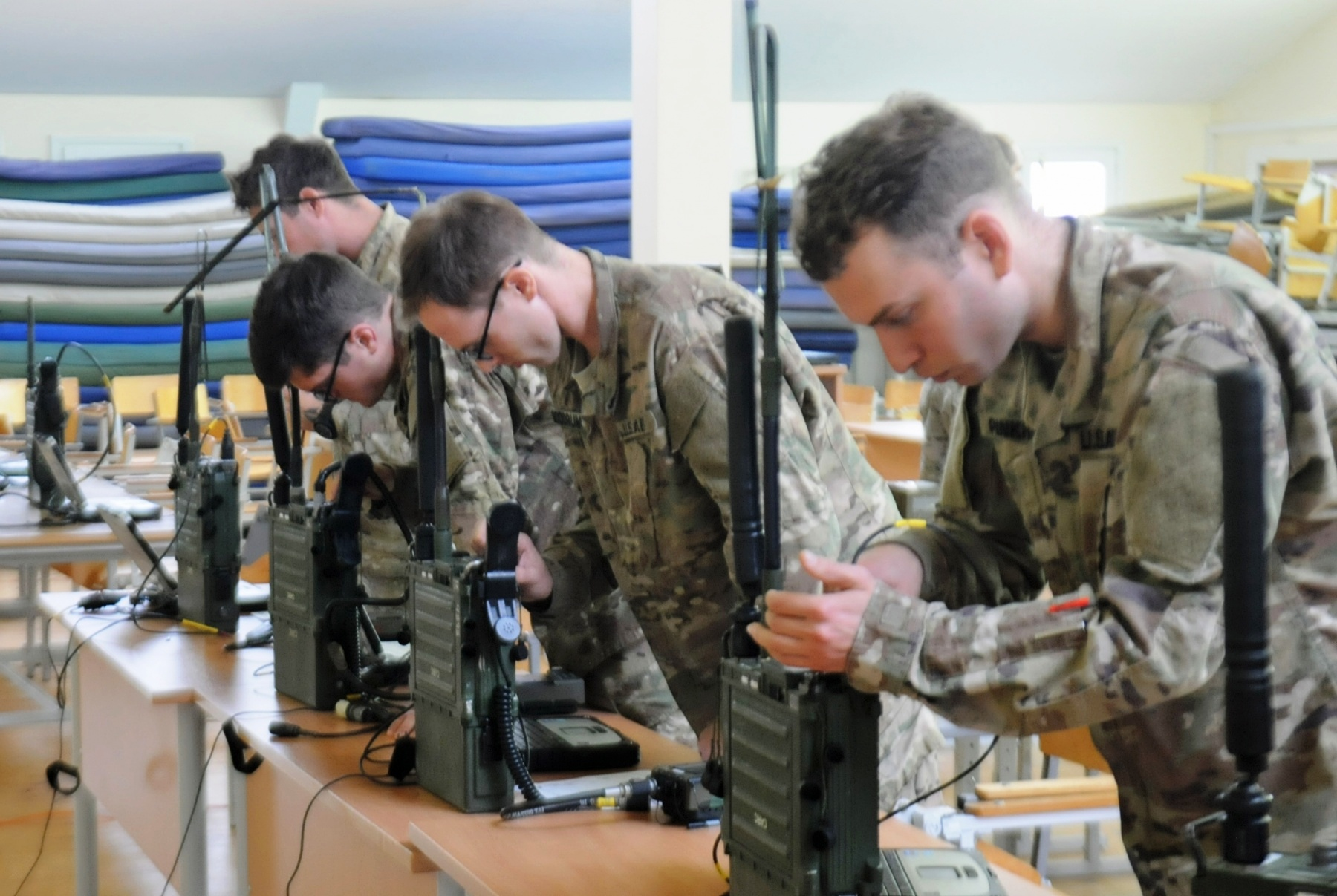 U.S. Army Reconnaissance and Surveillance Leaders Course students practice setting up their radios prior to their communication hands-on test during the course's first overseas training course in Lithuania